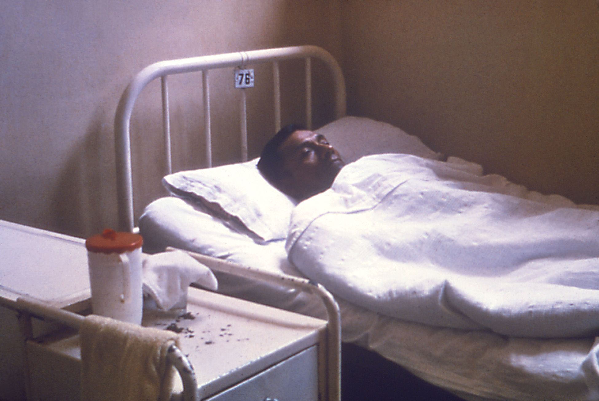 This patient presented with Brucellosis, which is also known as "Malta fever" and "undulant fever".